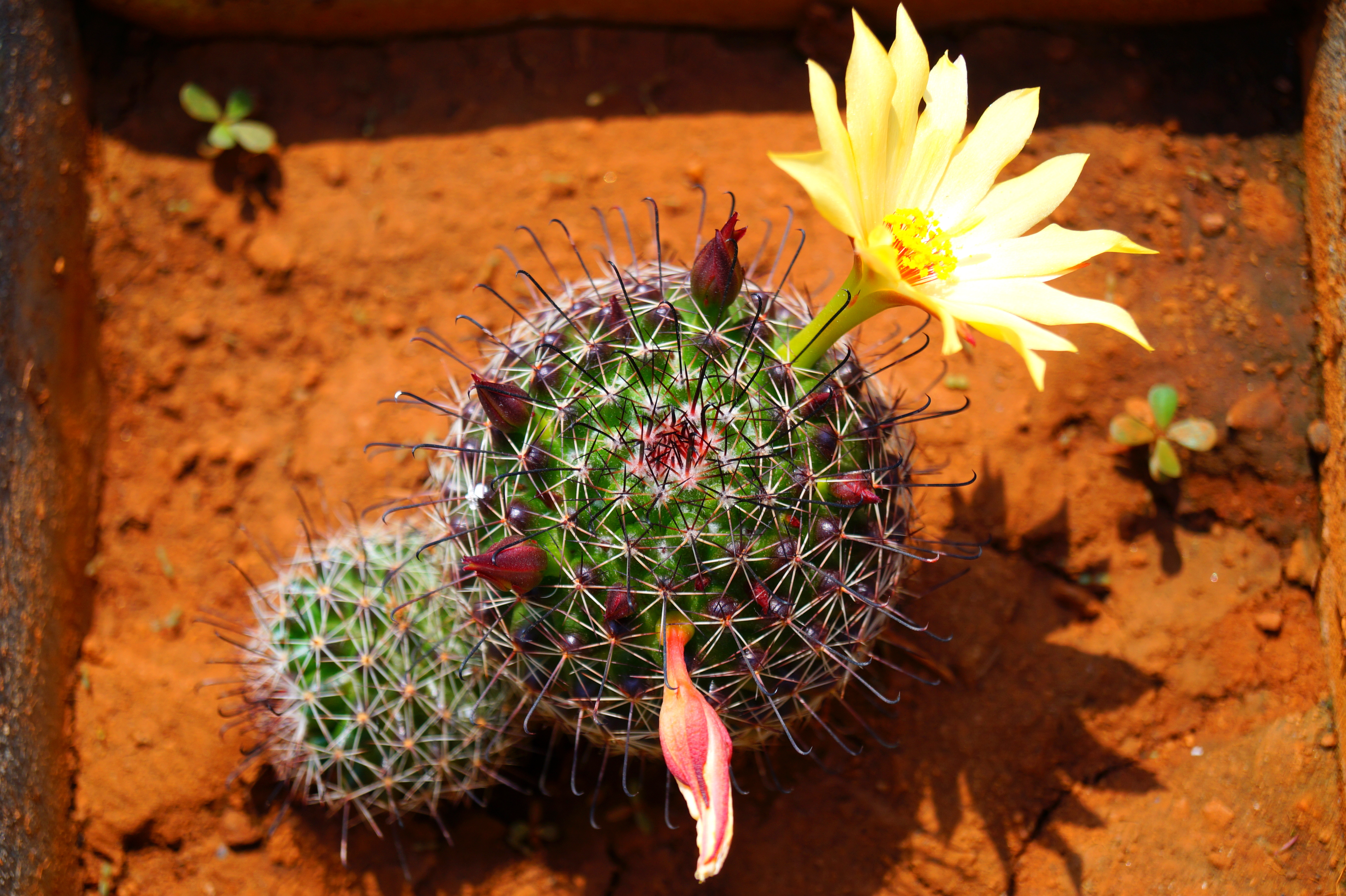 Fish hook Cactus with a emerging,developed bud,flower bud, flower at full bloom,and flower after bloom .